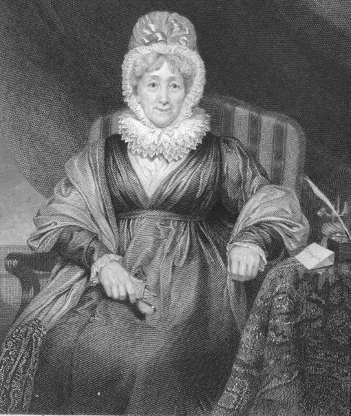 Portrait of Hannah More (1745-1833)